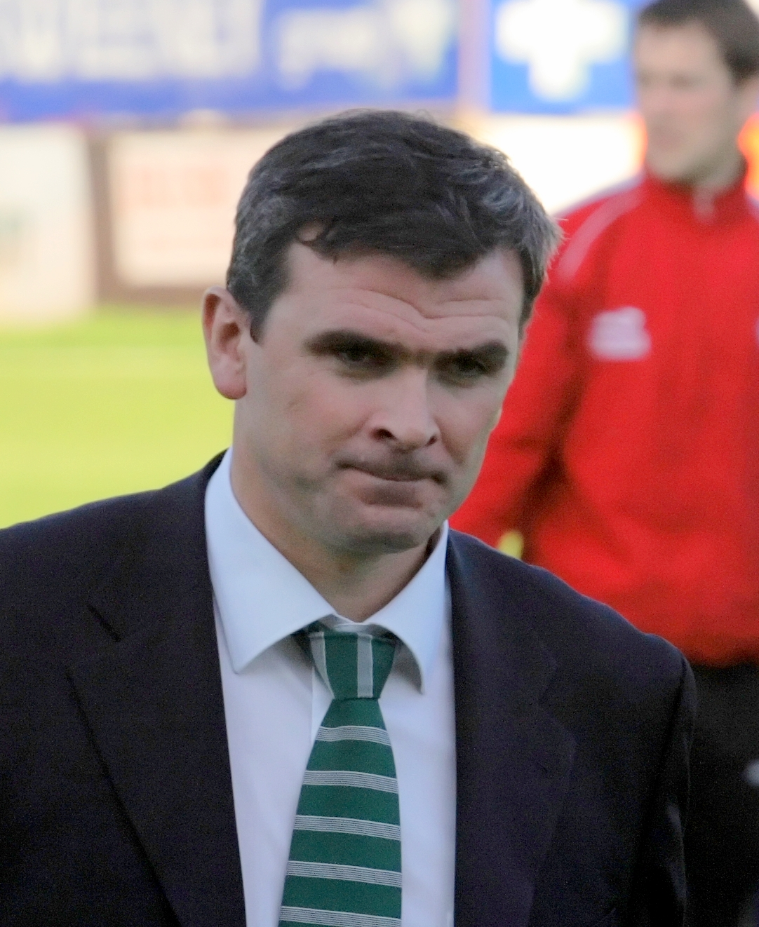 Taken at the Kildare -v- Rovers match in Feb 2007.